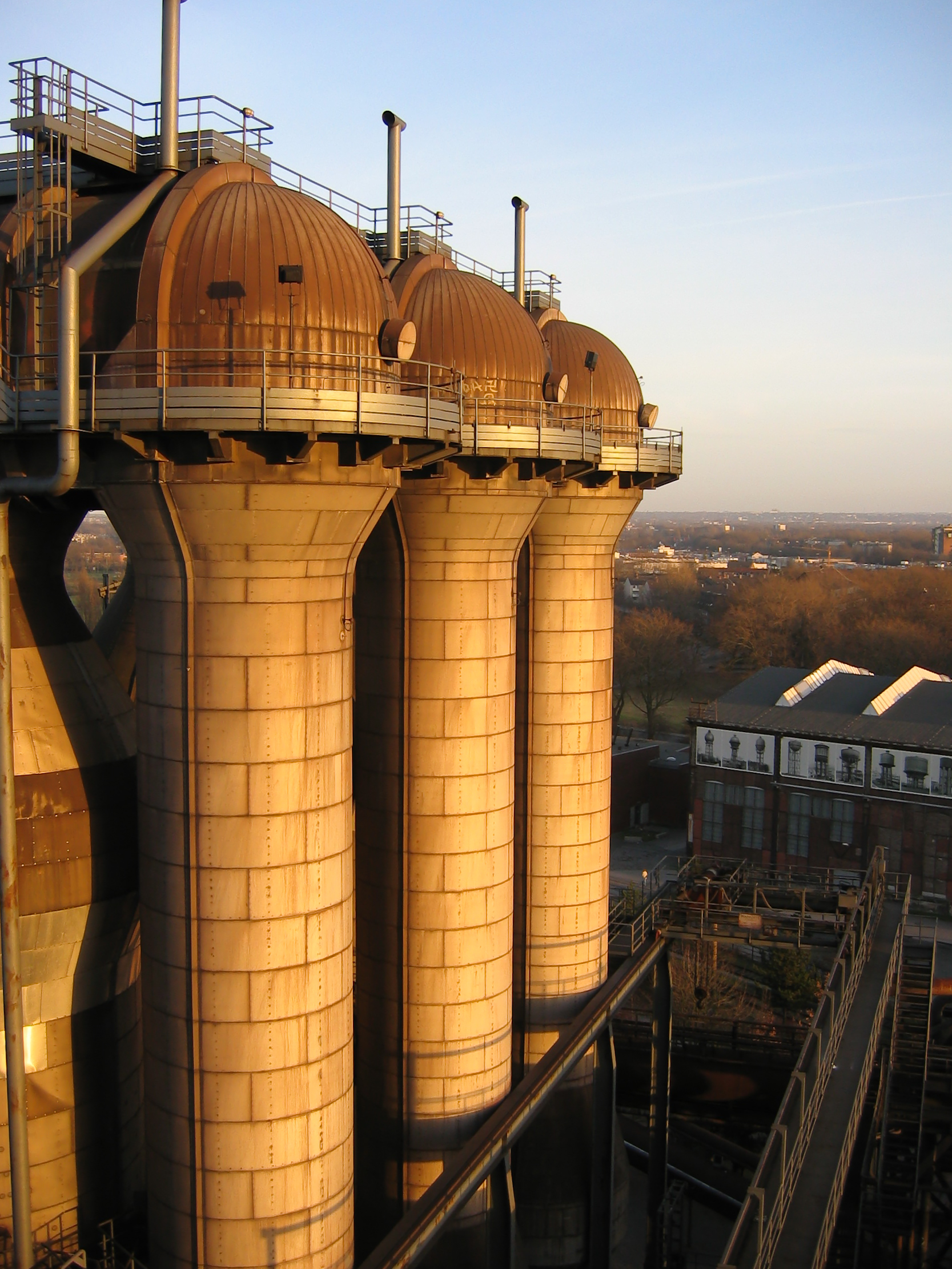 Landschaftspark Duisburg-Nord - Cowper regenerative heat exchanger, connected to blast furnace 5